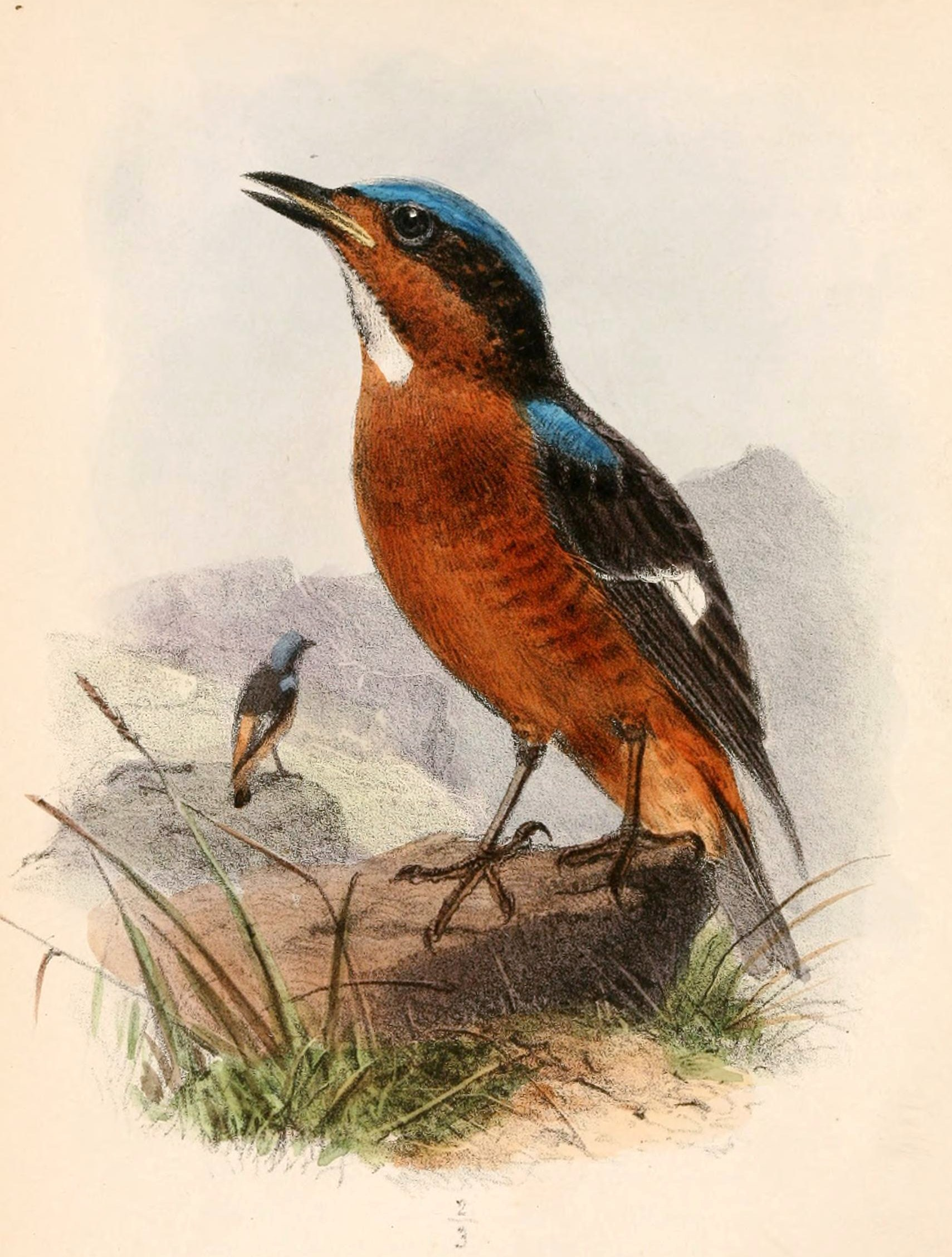 « Oroecetes gularis » = Monticola gularis (White-throated Rock Thrush)